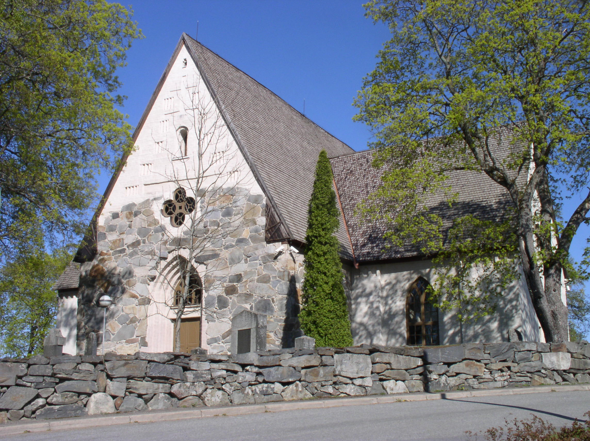 Lempäälä church in Lempäälä, Finland.